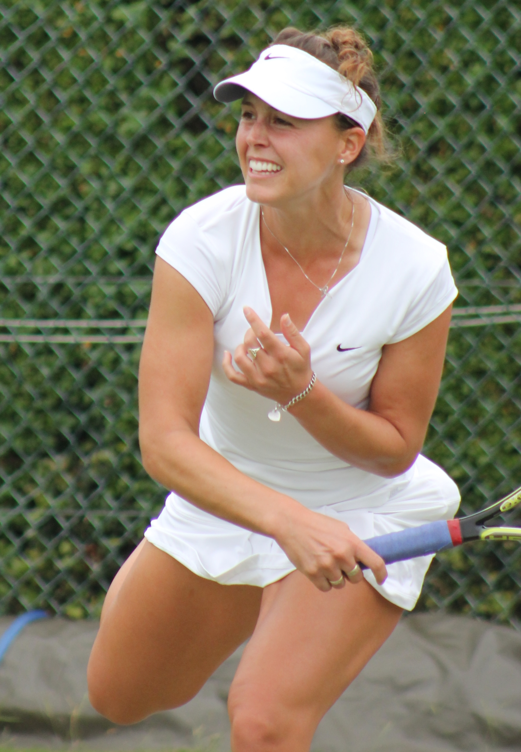 Michelle Larcher de Brito, 2013 Wimbledon Qualifying Tournament